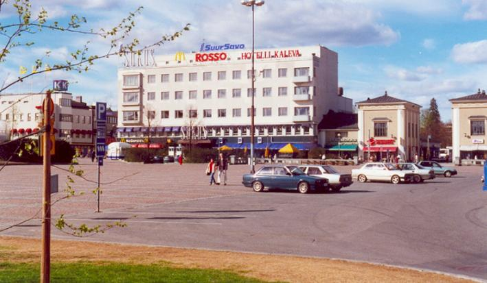 Town centre of Mikkeli, Finland, market place, viewed looking east, Sokos department store in centre background